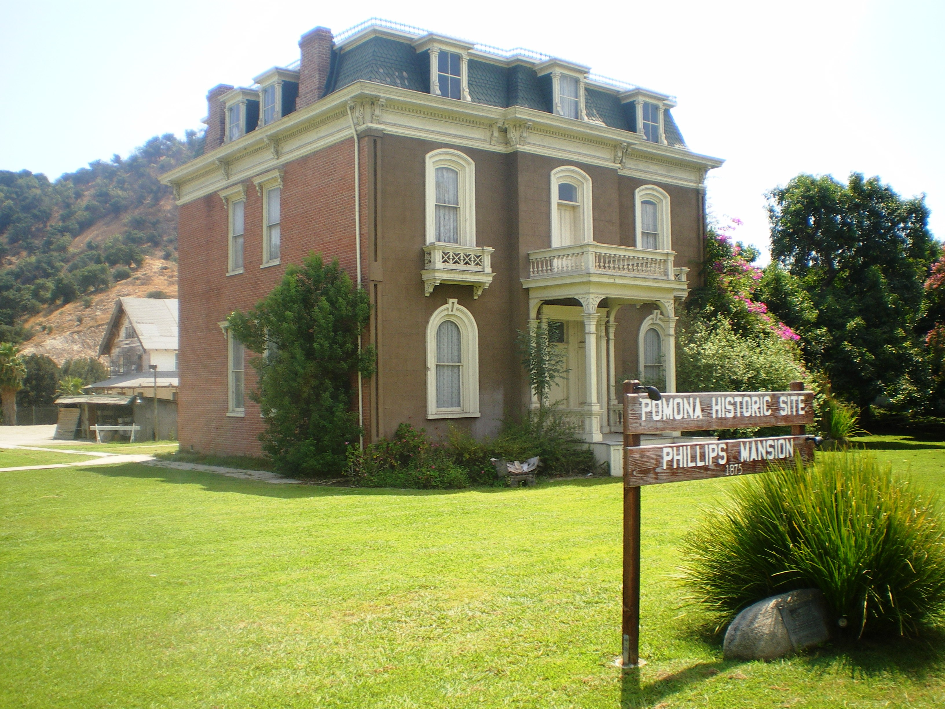 Phillips Mansion, 2640 Pomona Boulevard, Pomona, California